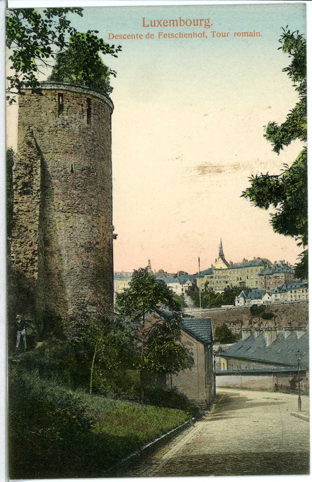 This postcard is from publisher Brück & Sohn in Meißen ( This postcard has a unique number 06568 and is available in a higher resolution at the publisher. This images was uploaded in a cooperation project between Wikipedians and the publisher.